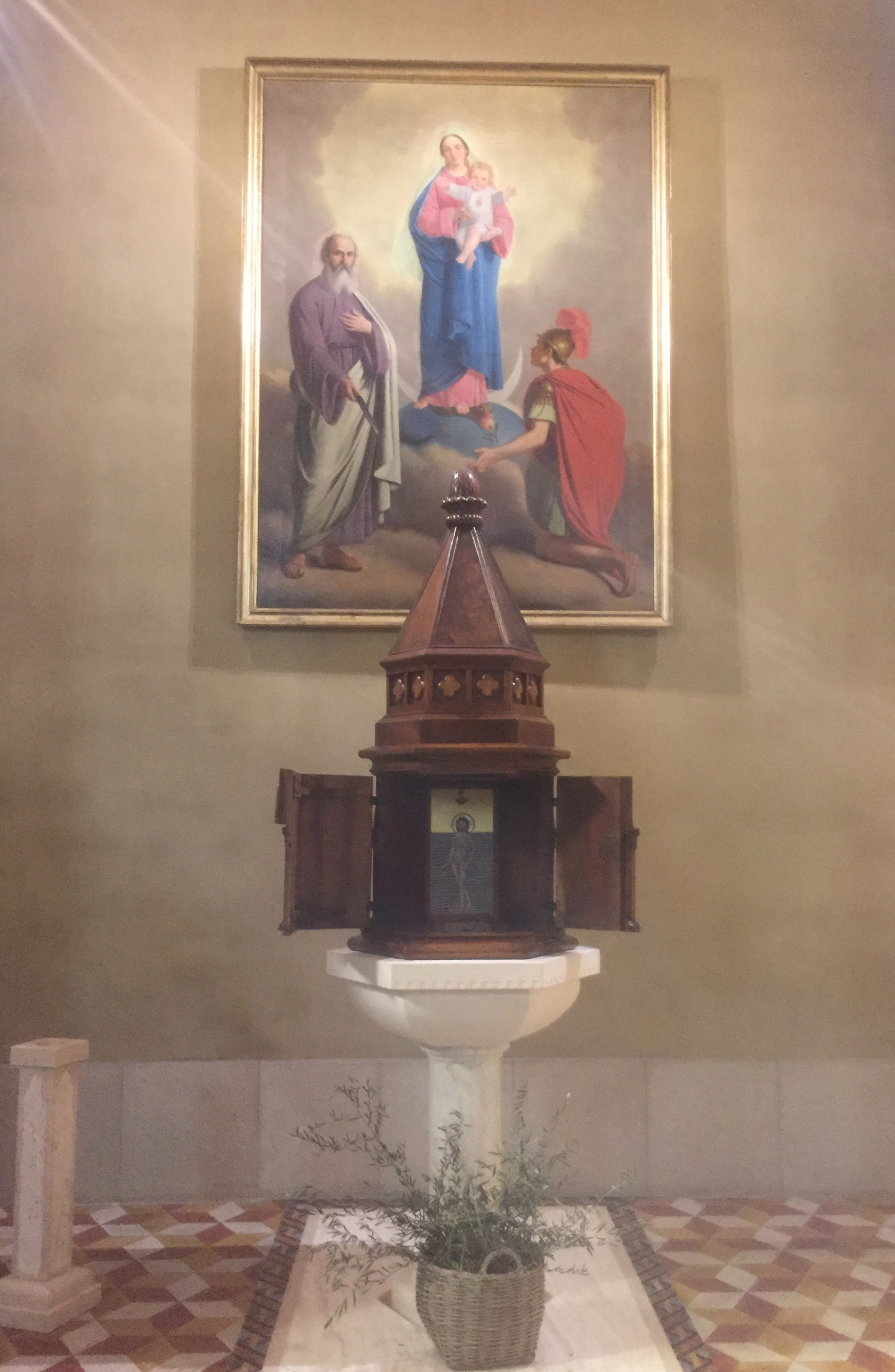 The baptistery of st Bartholomew's church in Marne (province of Bergamo), Italy